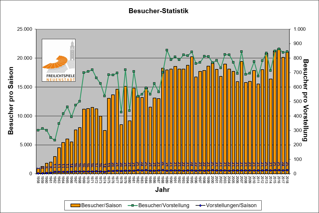 Statistics for Freilichtspiele Neuenstadt